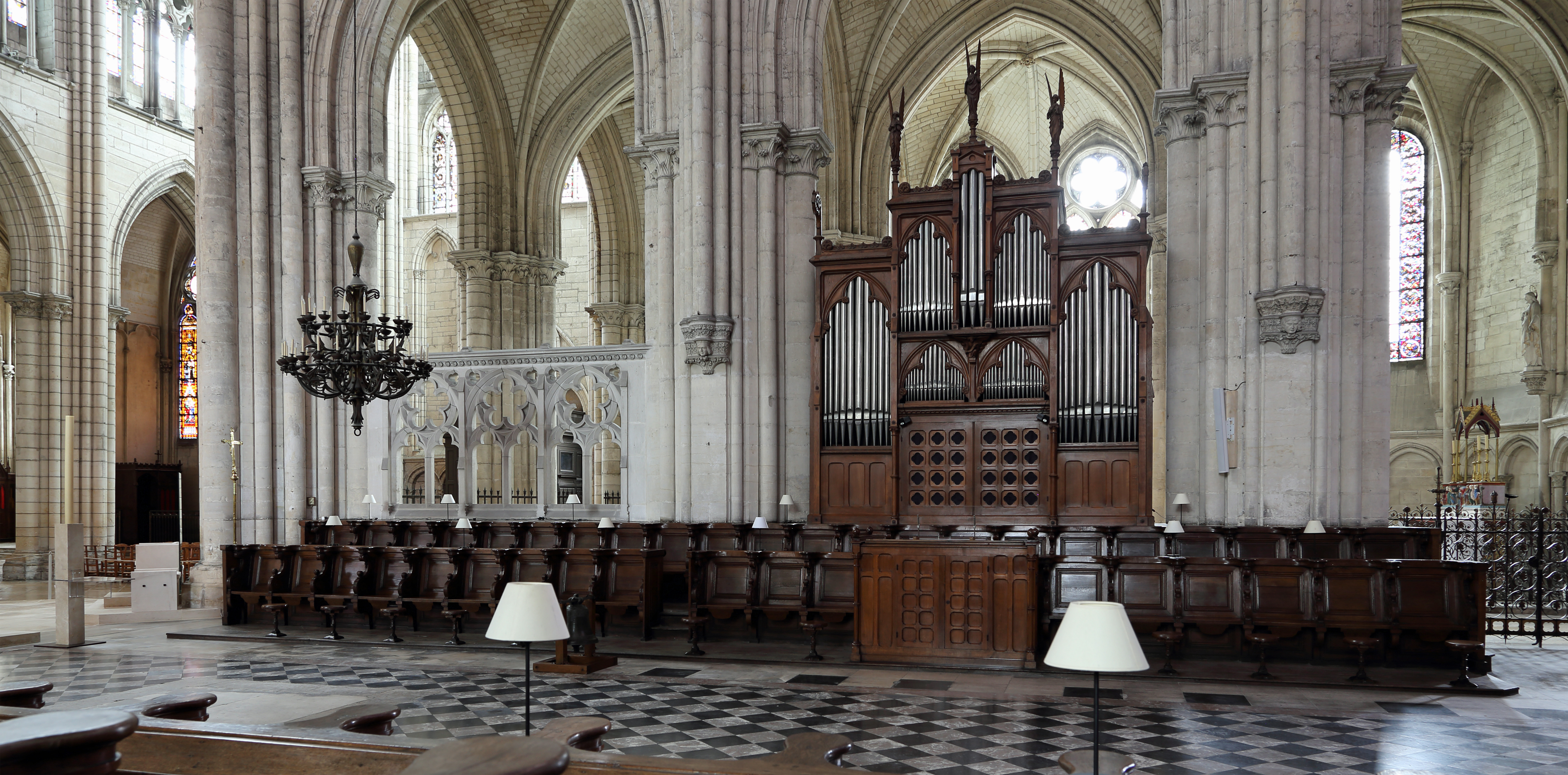 Troyes (Aube department, France): interior of Saint-Pierre and Saint-Paul cathedral